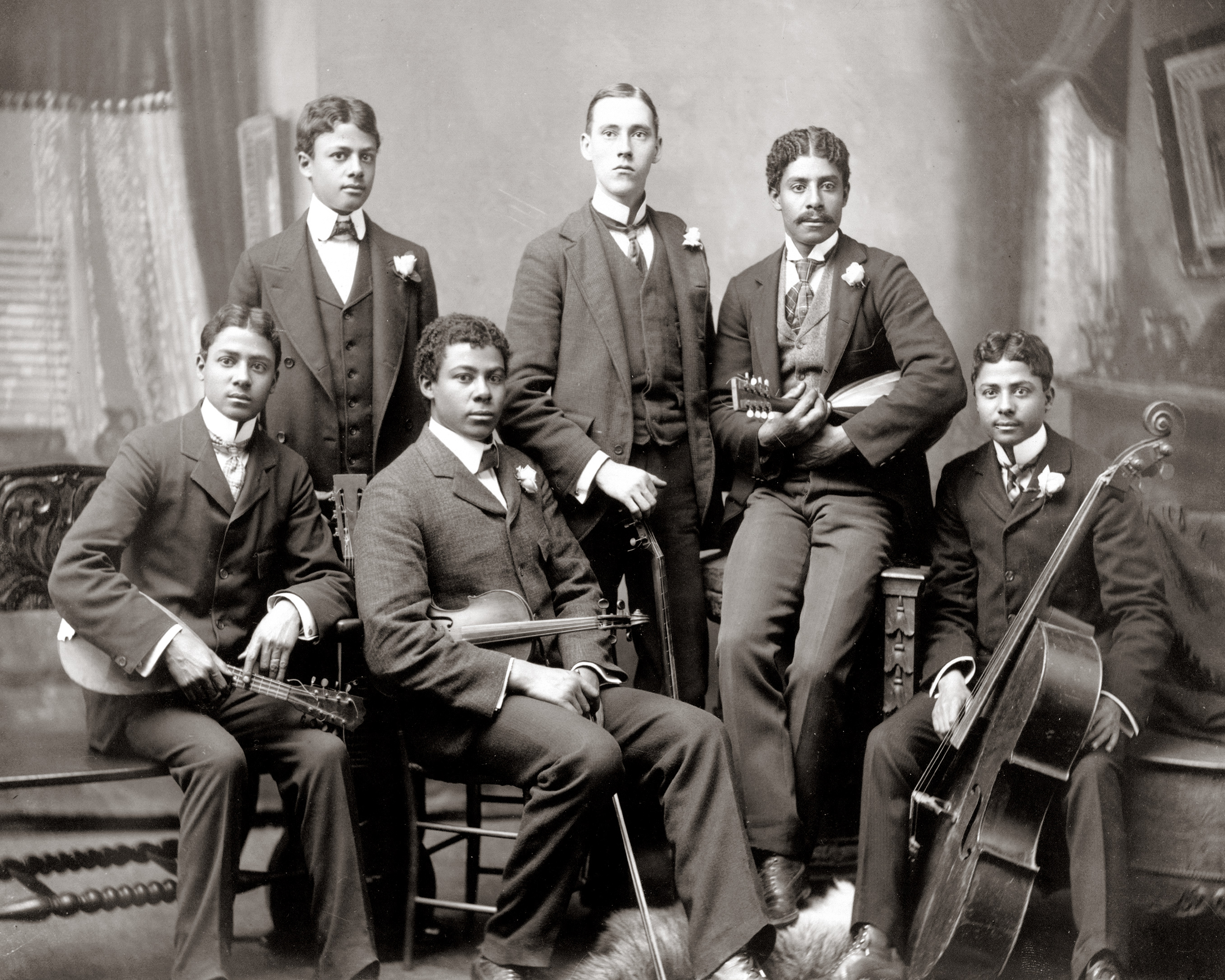 Summit Avenue Ensemble Photograph shows a group of six young men posed with their instruments in the photographer's home studio located on Summit Avenue, Atlanta, Georgia. From left: the photographer's twin sons Clarence and Norman Askew, son Arthur Askew, neighbor Jake Sansome, and sons Robert and Walter Askew. Untitled photo in album (disbound): Negro life in Georgia, U.S.A., compiled and prepared by W.E.B. Du Bois, v. 4, no. 356. Published in A Small Nation of People: W. E. B. Du Bois and African American Portraits of Progress by David Levering Lewis and Deborah Lewis.